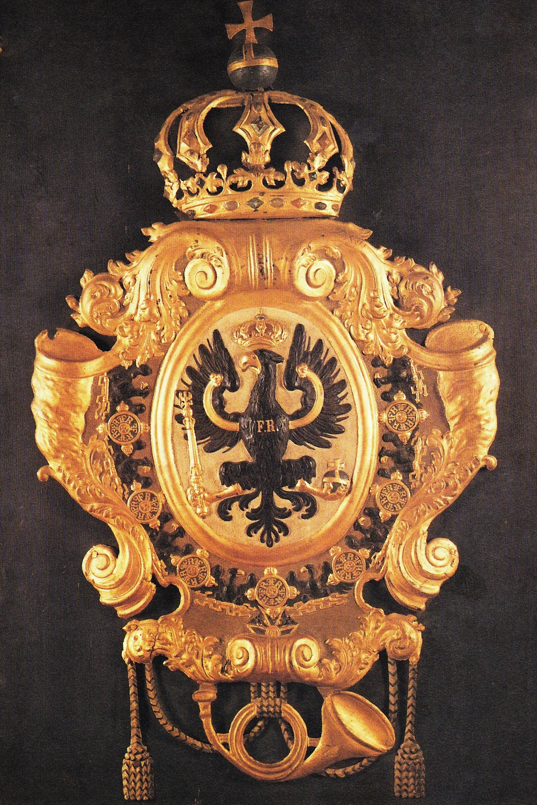 Prussian posthouse sign, c. 1720.